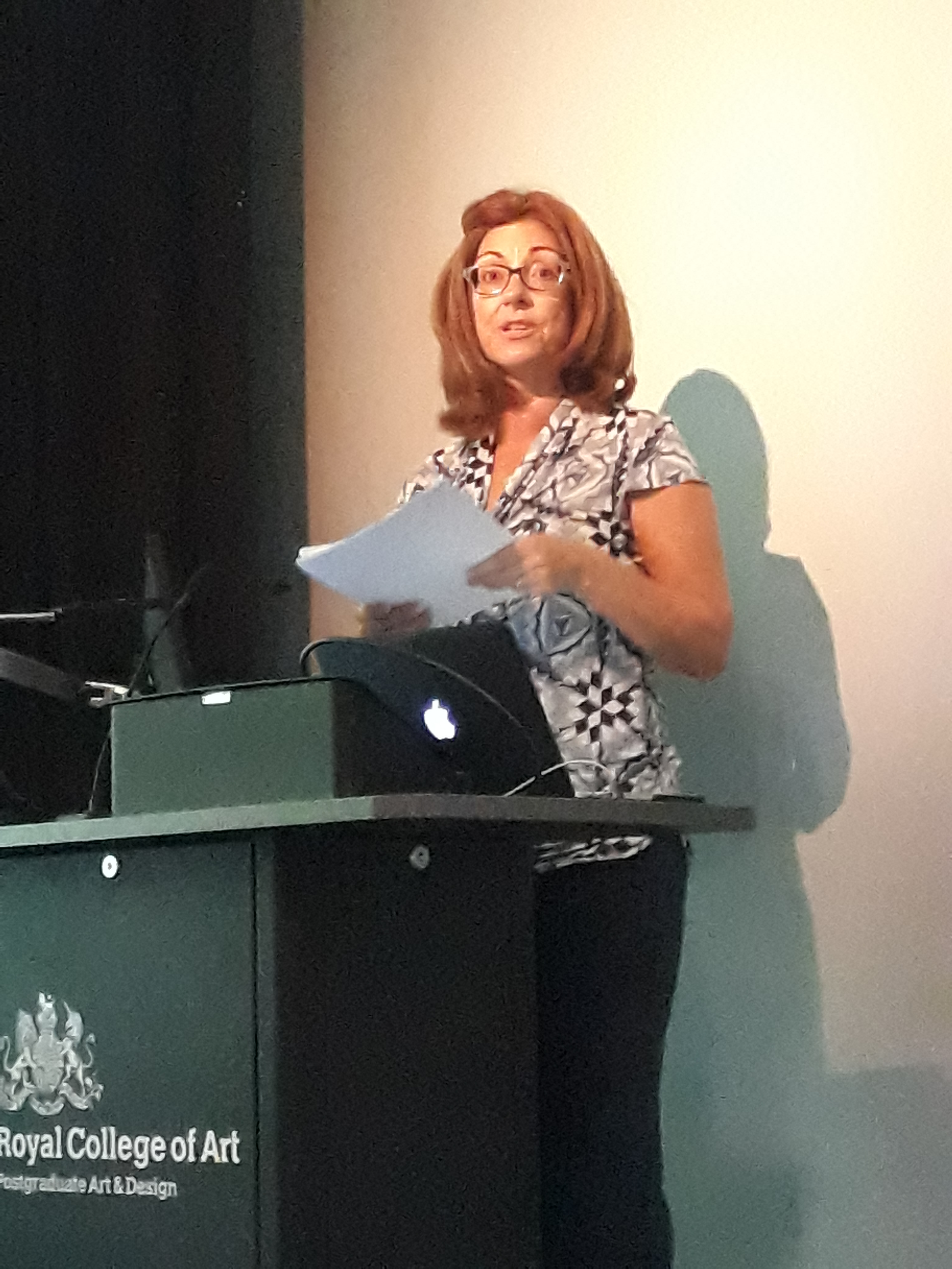 Catherine Mason, a digital art historian, speaking during the Event Two exhibition, held at the Royal College of Art, London, England, in July 2019.